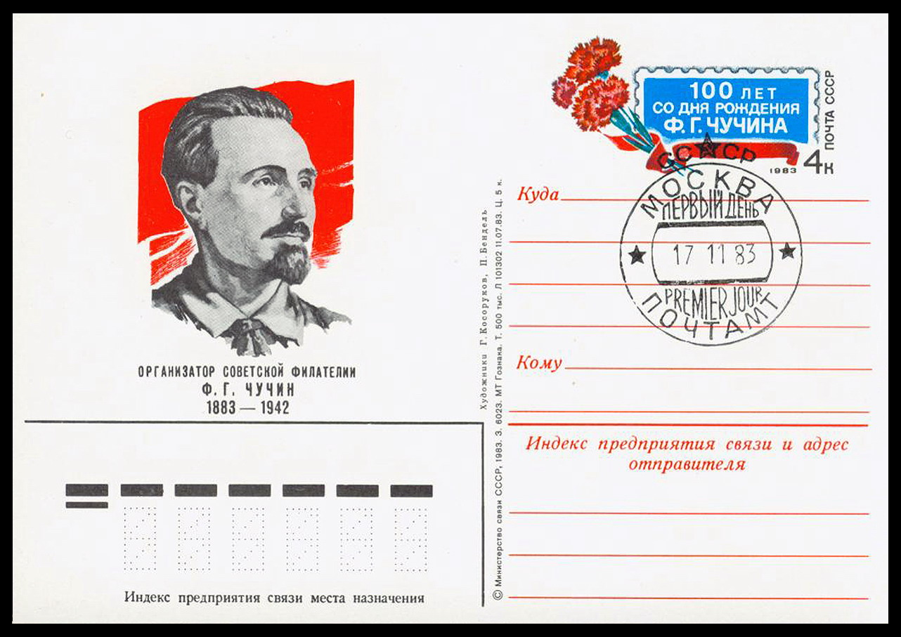 USSR postcards, F. G. Chuchin, an organizer of the Soviet philately, 1983